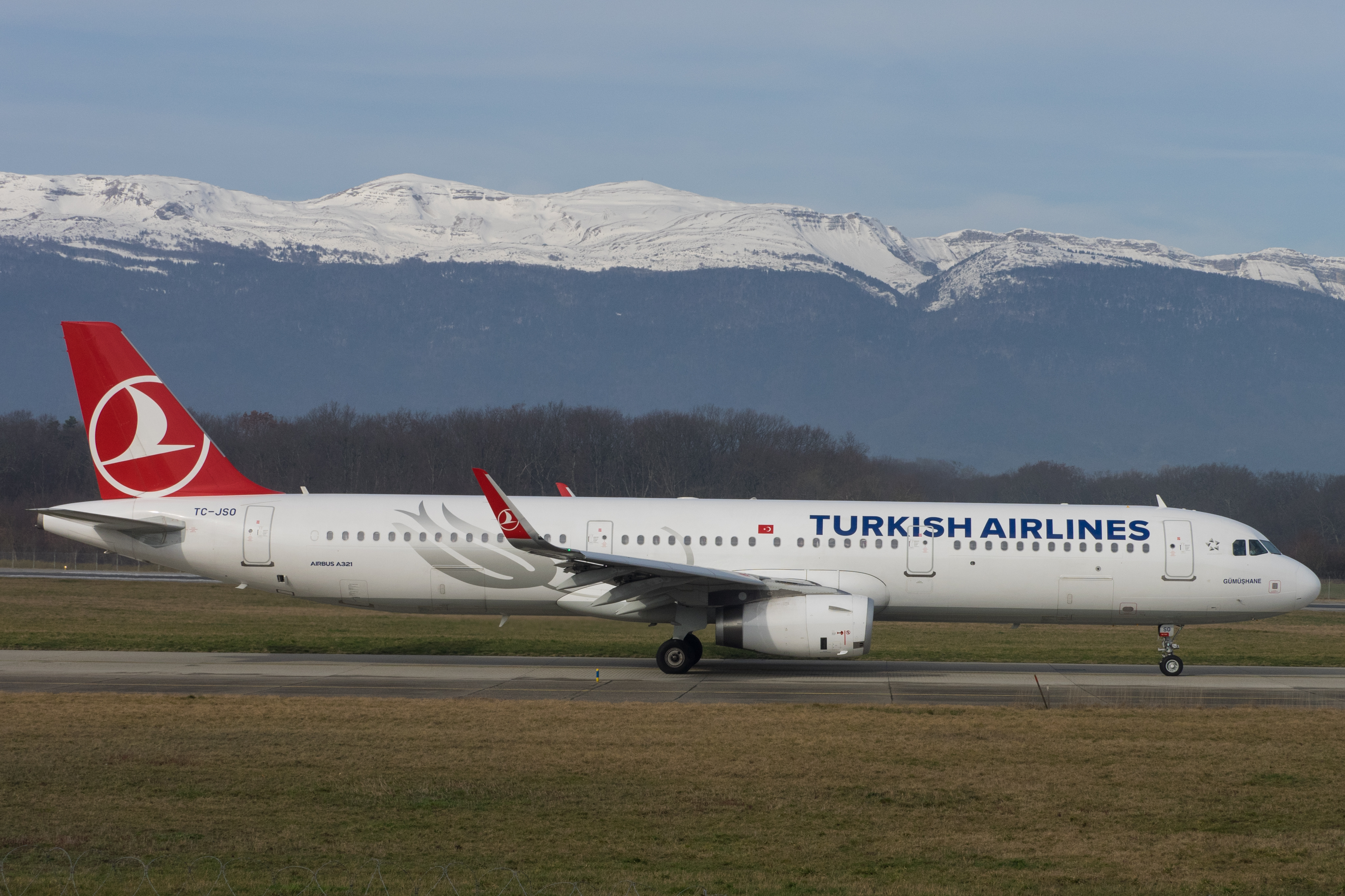 GVA 06.02.2016